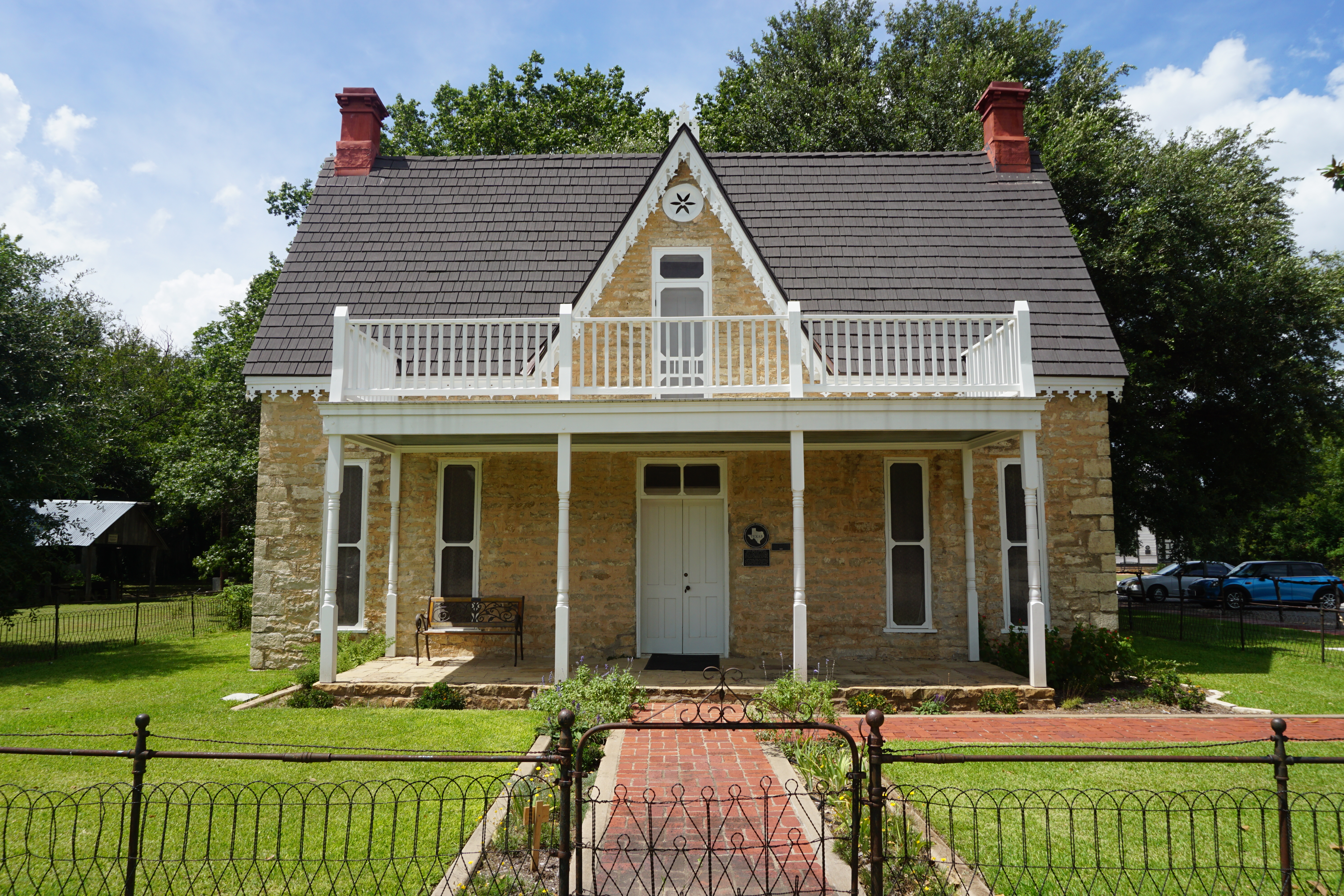 The Berry House at the Stephenville Historical House Museum in Stephenville, Texas (United States).